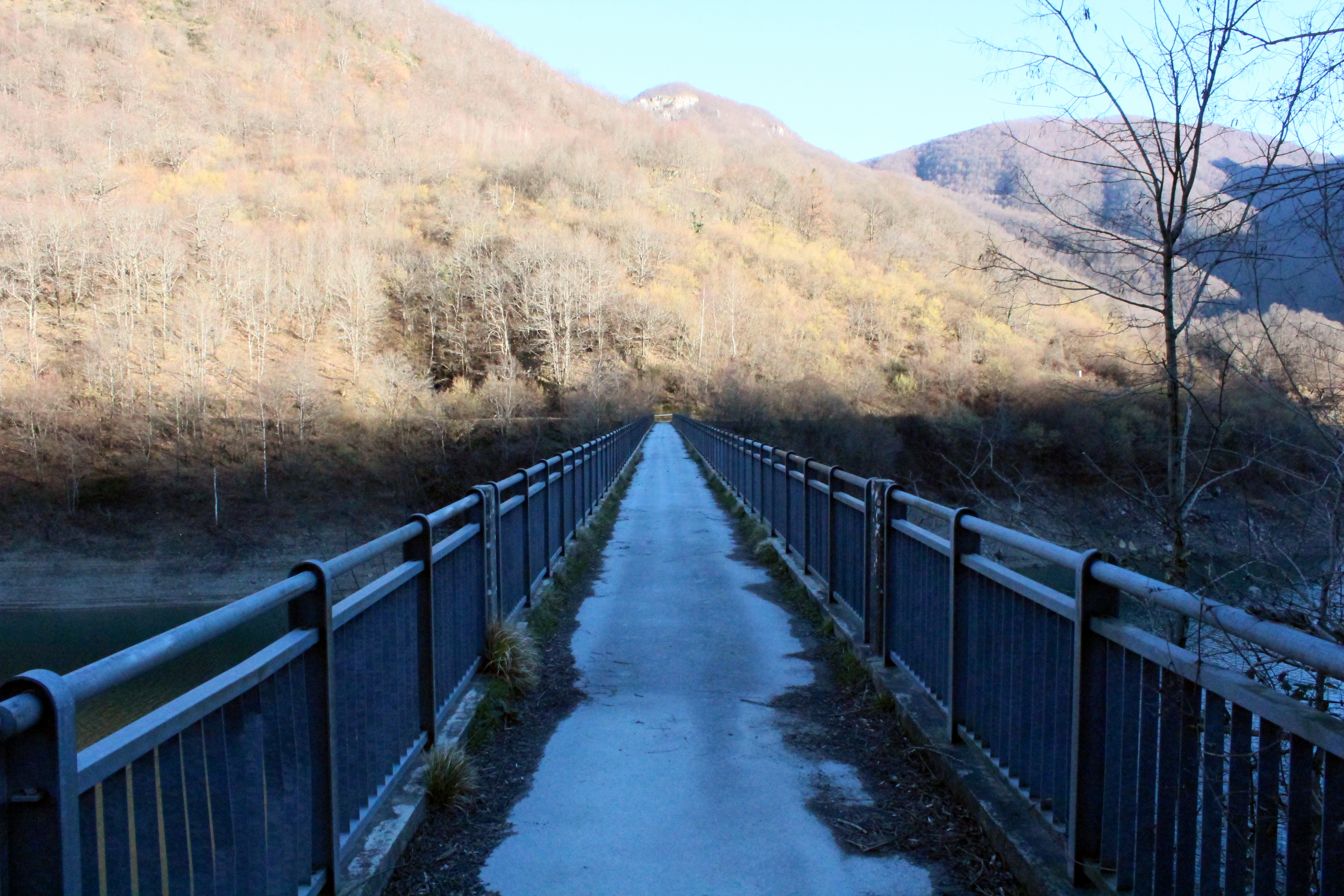 Bridge Ponte Morandi in Vaglio Sotto (Lago di Vagli), Garfagnana, Province of Lucca, Tuscany, Italy (towards East)